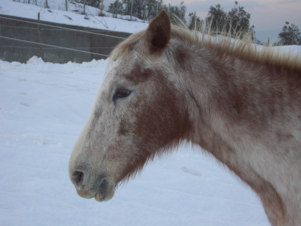 Head of criollo horse in a rescue center in Italy: Fondazione Flaminia da Filicaja